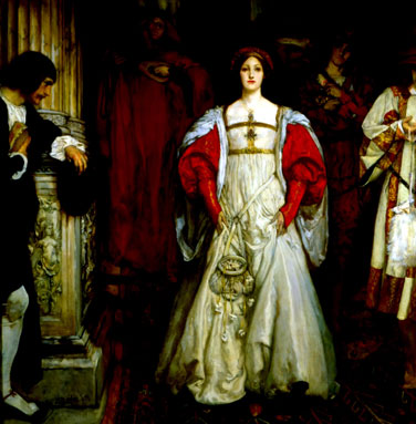 who_is_Sylvia_-_What_is_she,_that_all_the_swains_commend_her